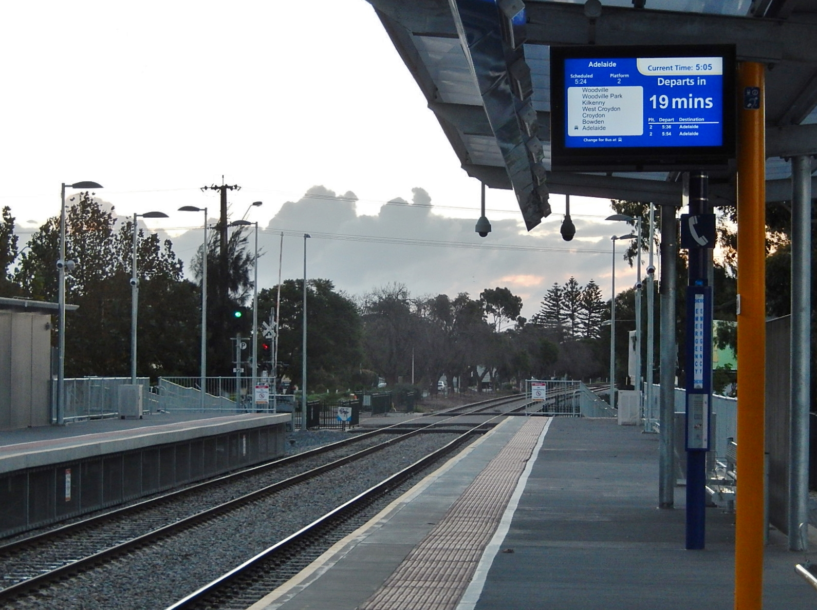 St Clair Railway Station platform